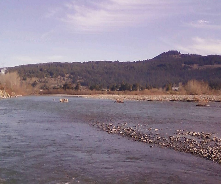 Mad River, northern California